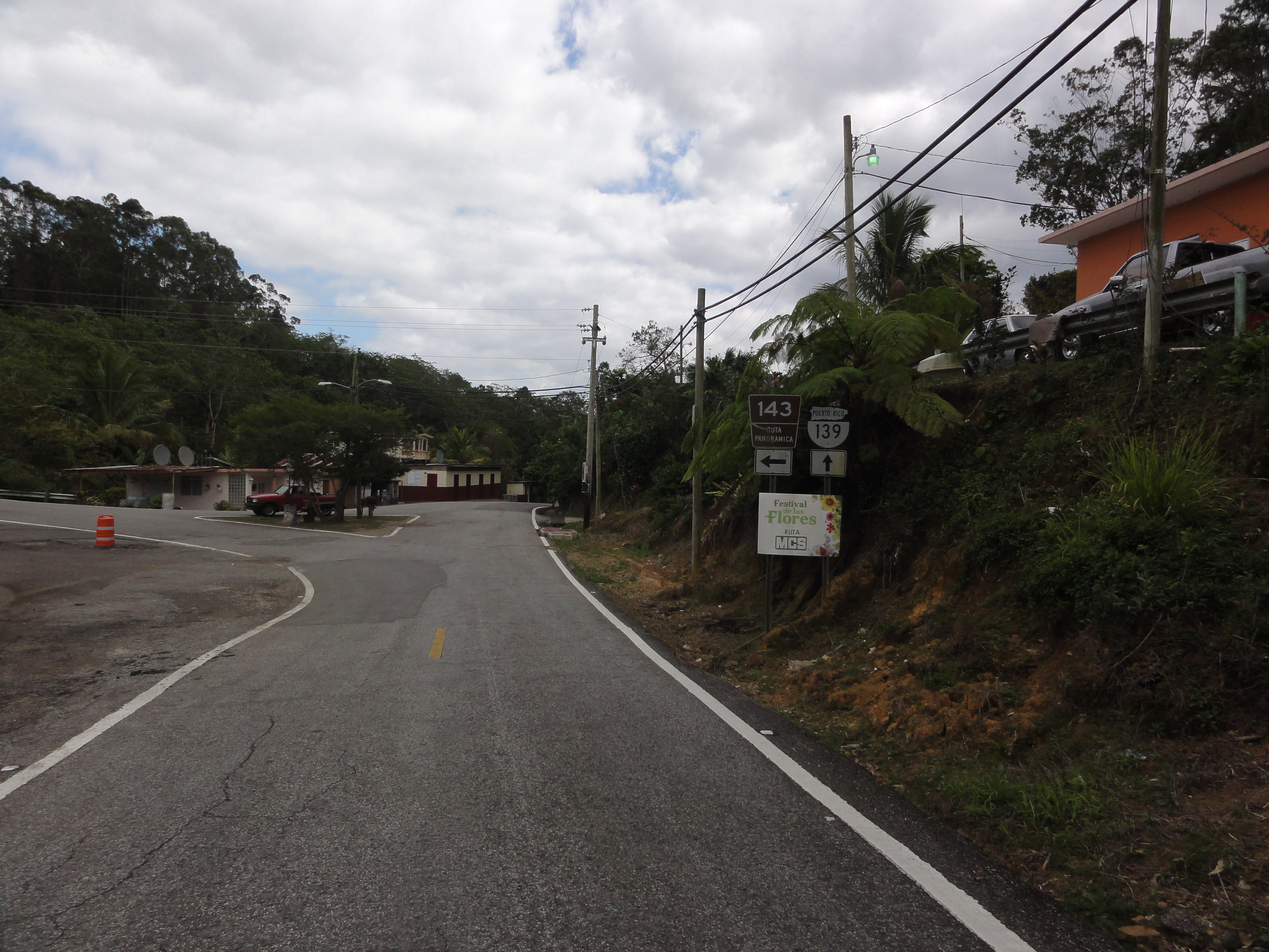 Escena cotidiana en la Carretera PR-143 Este interseccion con el terminal norte de la Carretera PR-139 en el Barrio Anon, Ponce, Puerto Rico